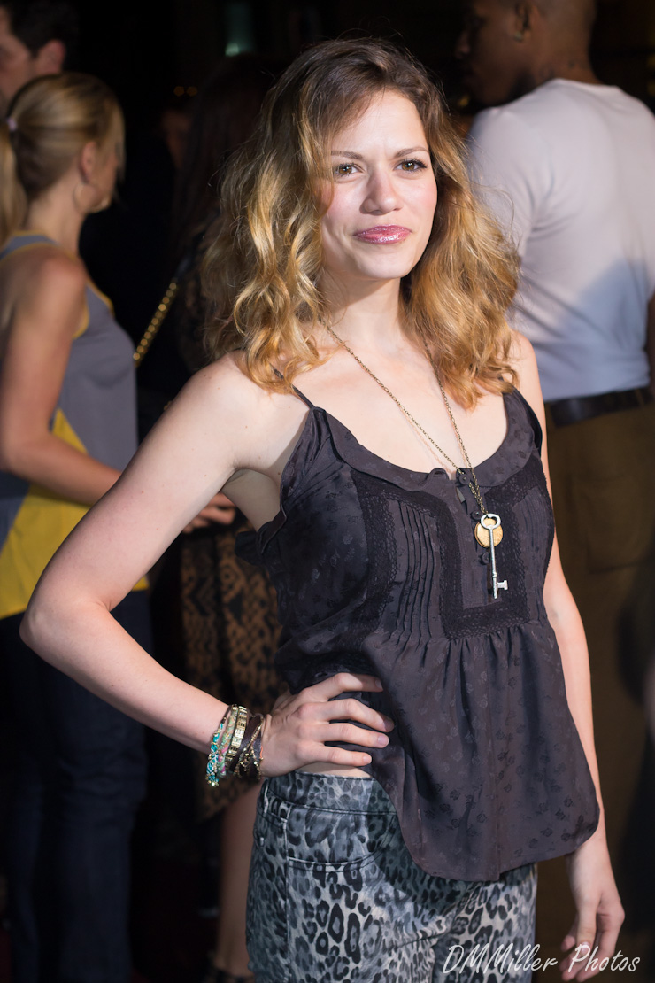 Bethany Joy Lenz at the Nicholas Sparks Celebrating Family Red Carpet premiere of The Lucky One in New Bern, NC